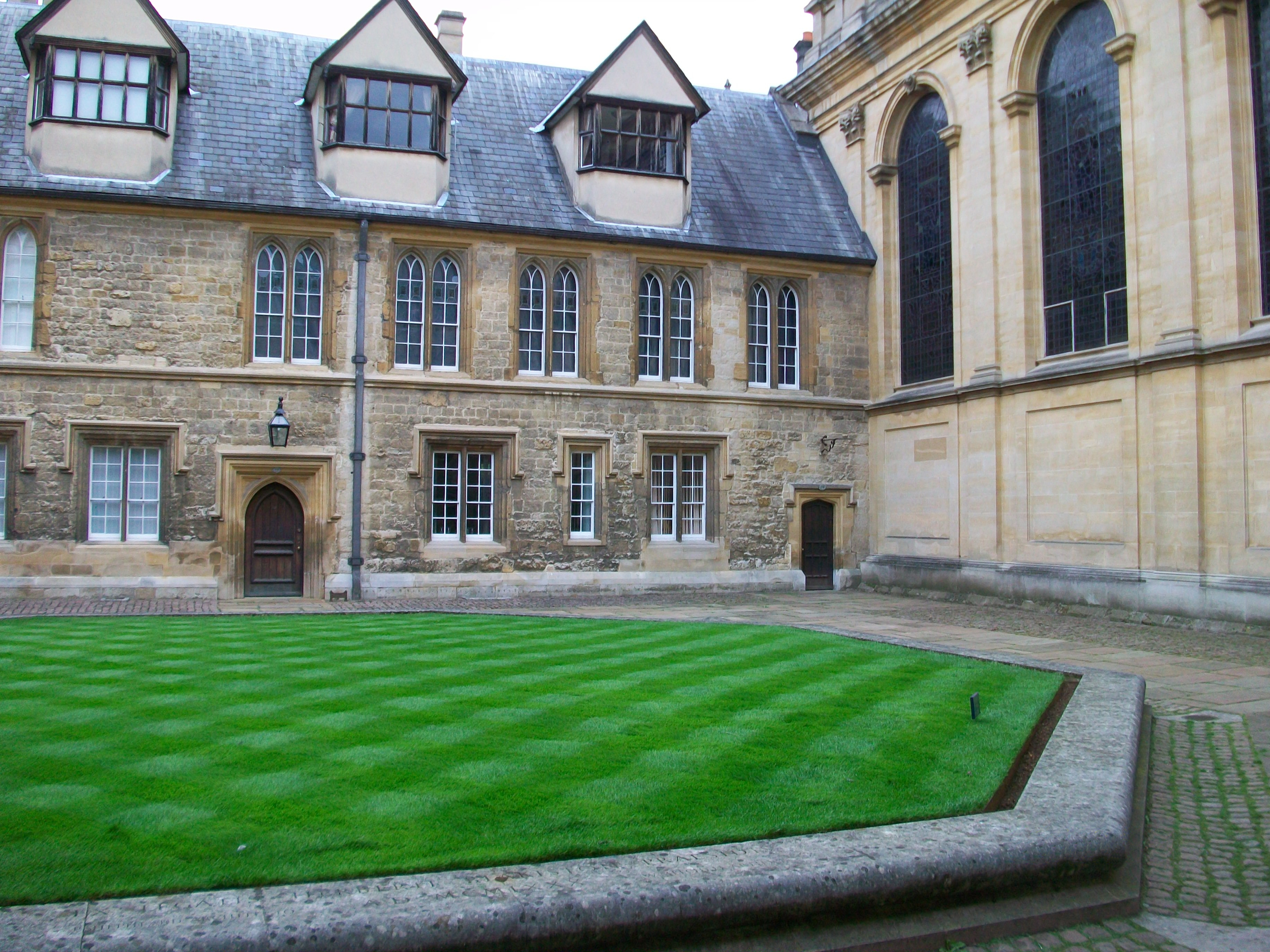 Chapel can be seen to the right.